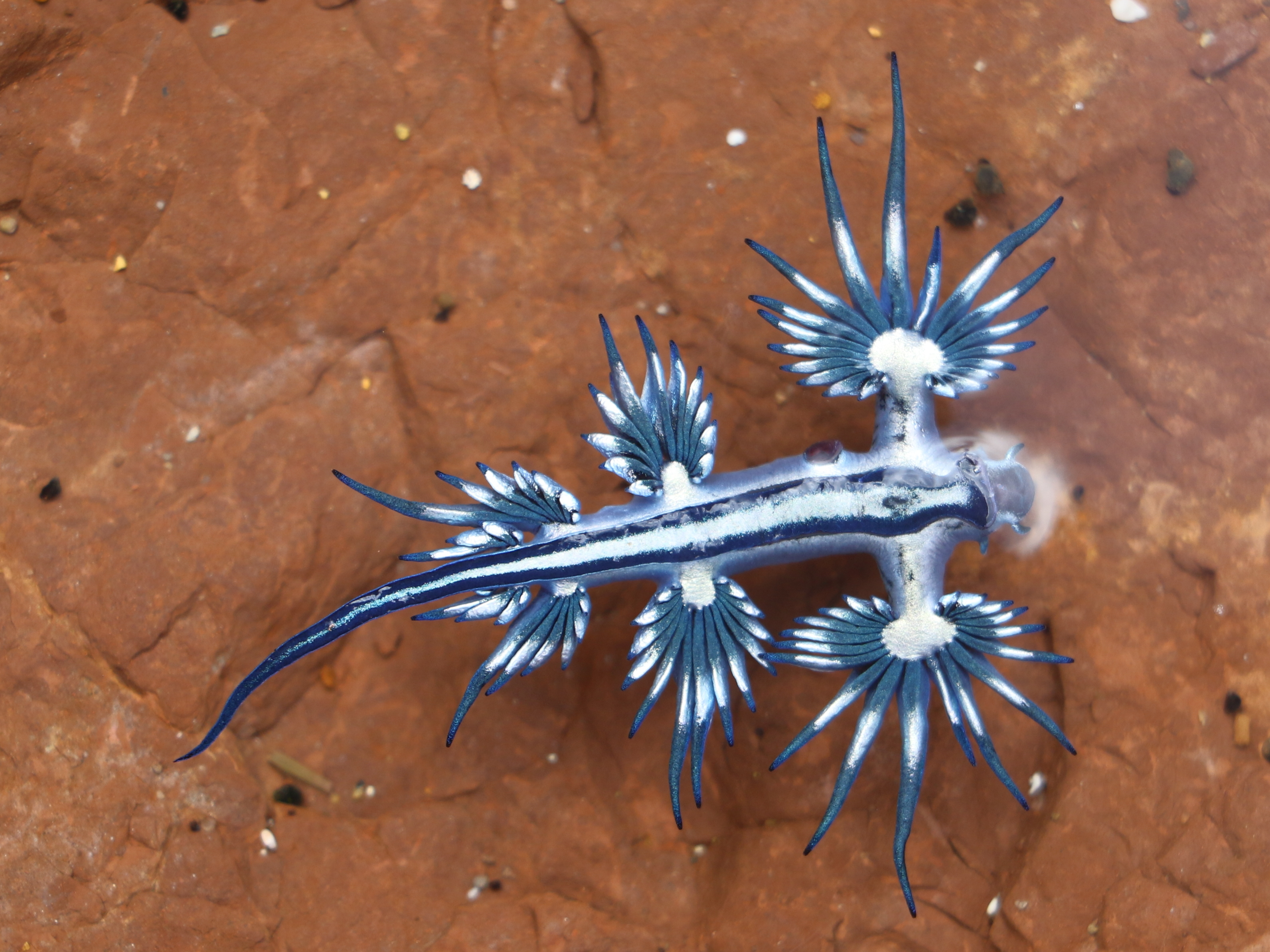 Long Reef Blue dragon (Glaucus atlanticus). Just south of the headland. Rock is Bald Hill Claystone.